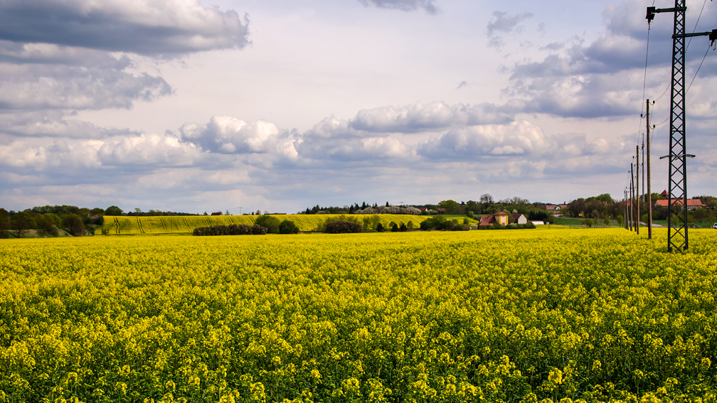 Hohenseeden from the northeast on the L54